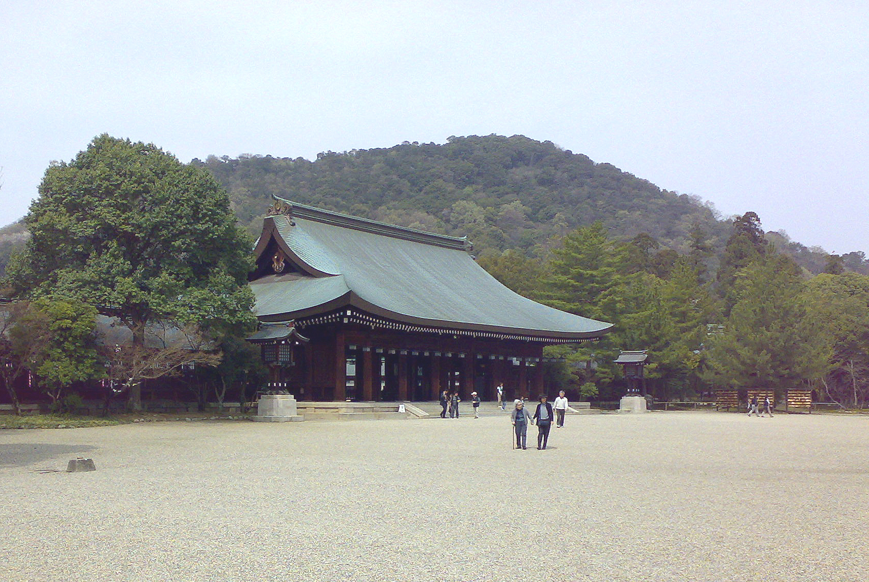 Ge-haiden of Kashihara-jingū.